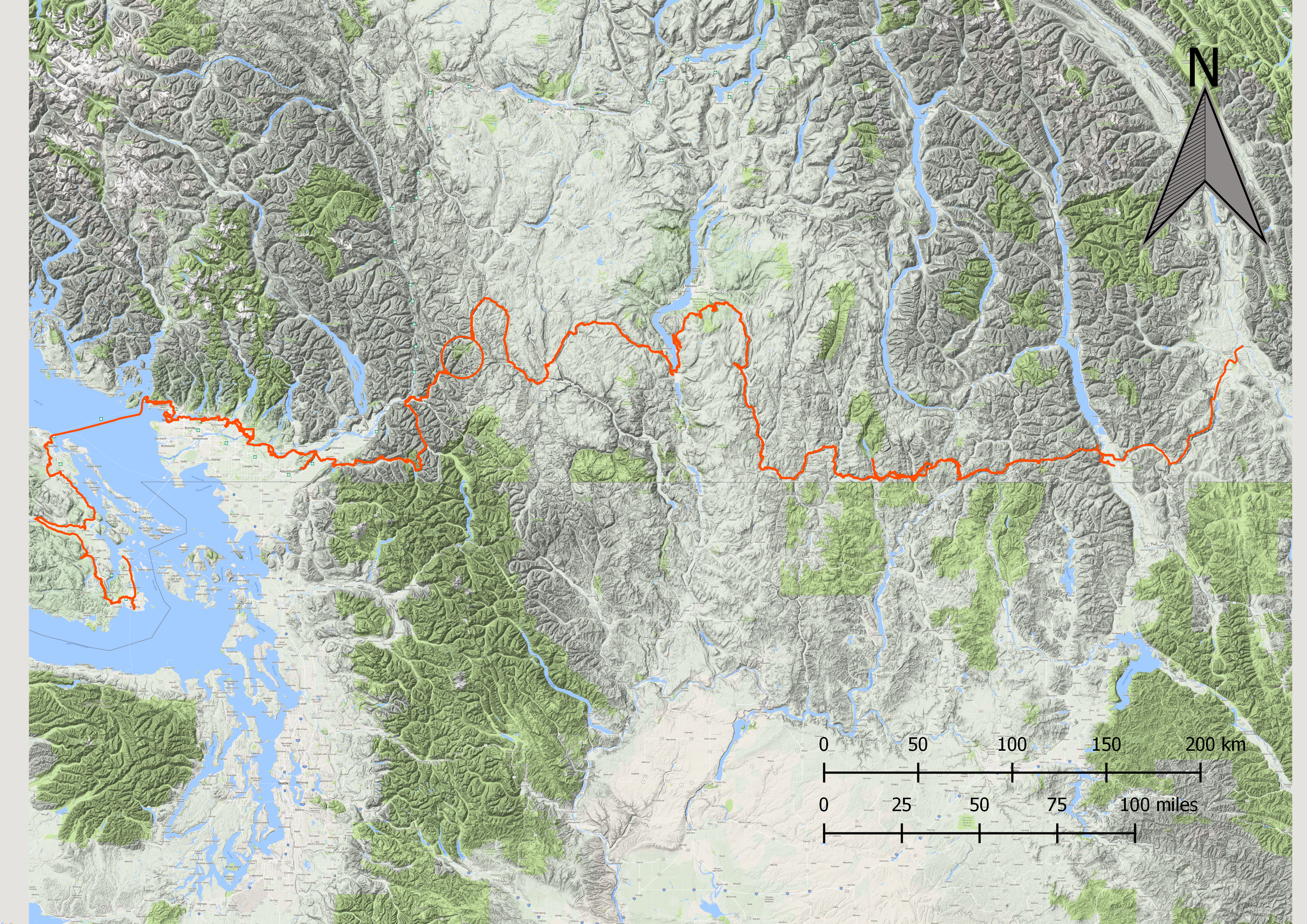 Trans Canada Trail. B.C. section. Data sourced from the Government of British Columbia data catalogue.